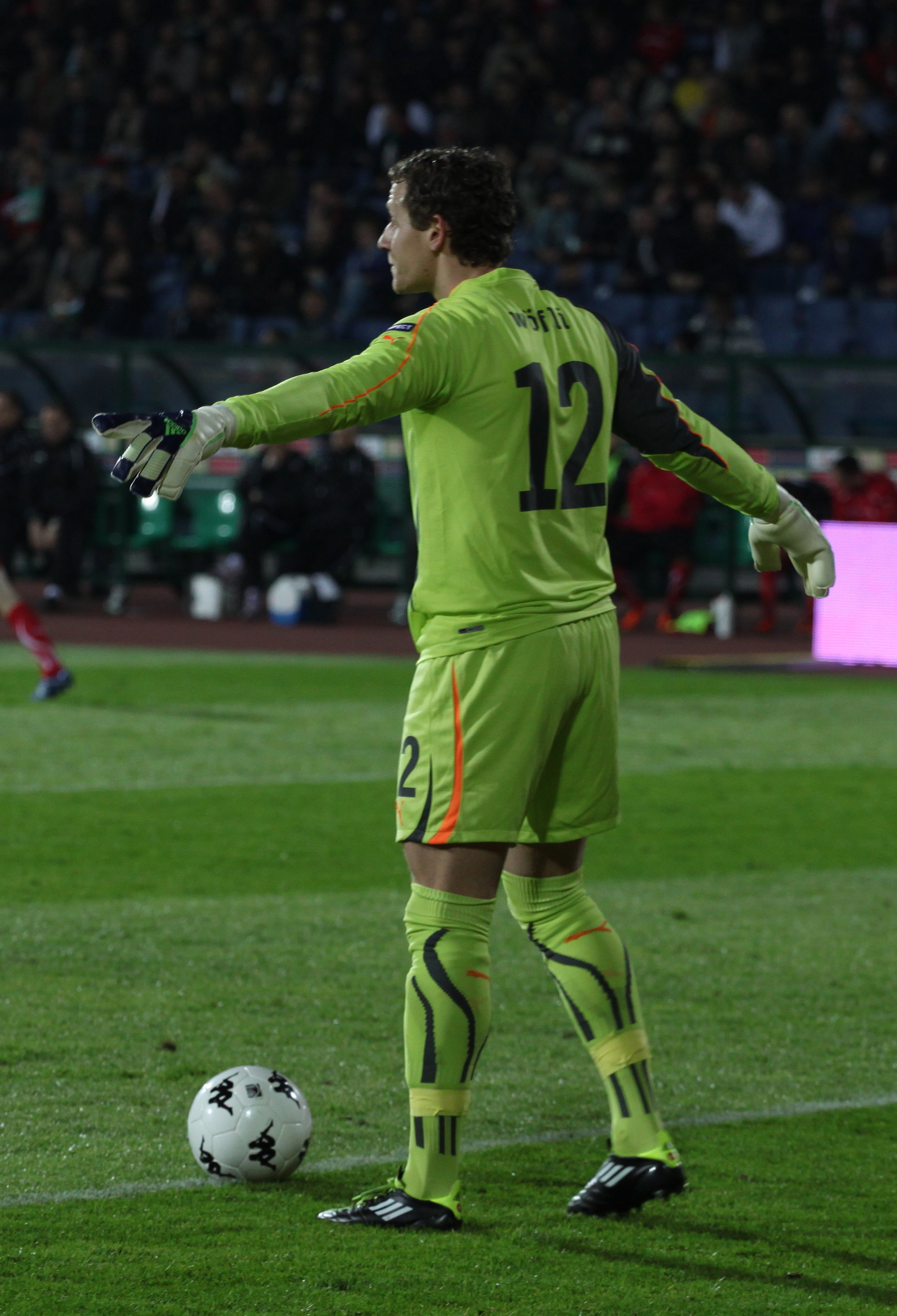 Swiss football (soccer) goal keeper Marco Wölfli